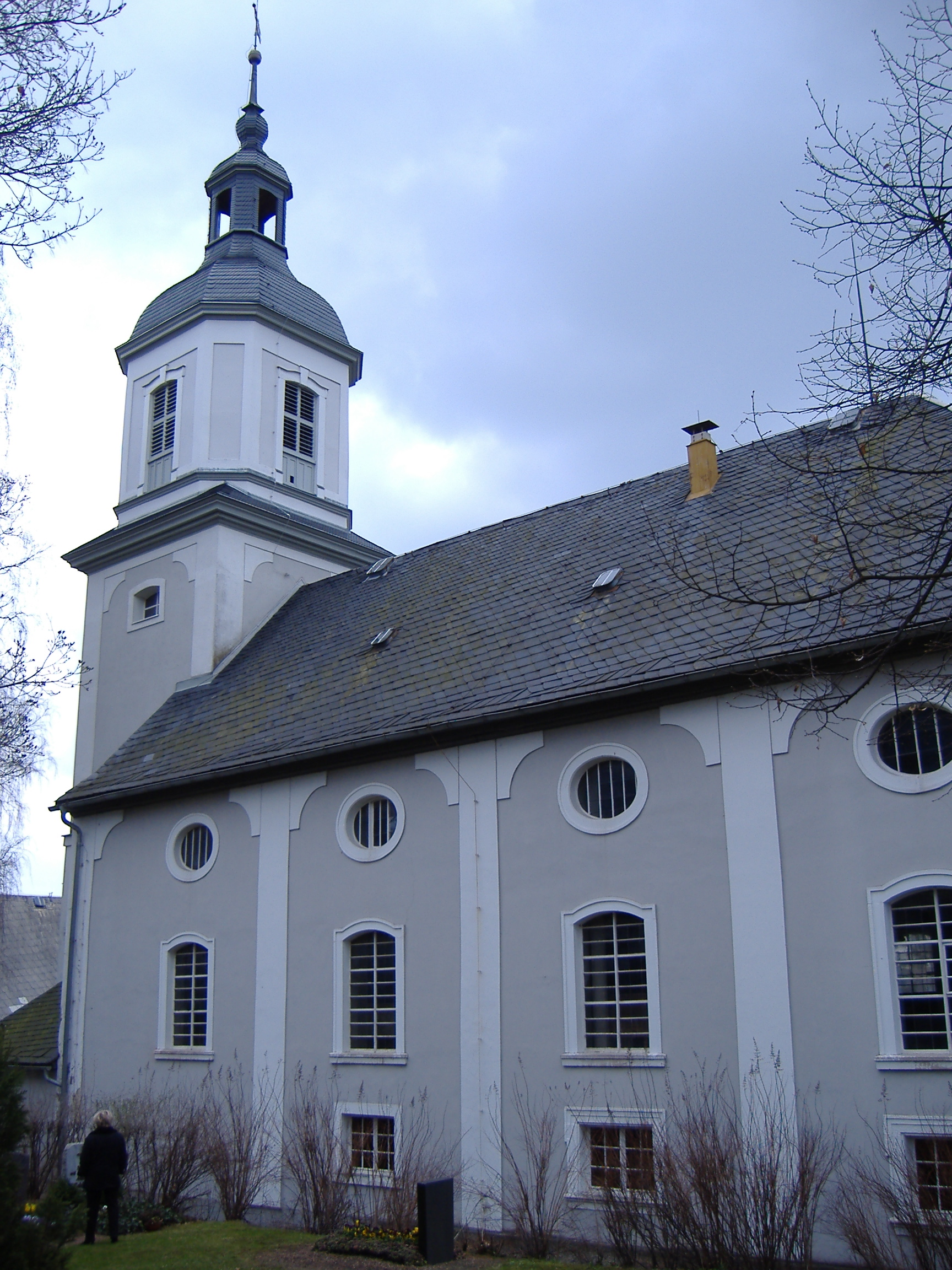 The Church of Fraureuth (Saxony).